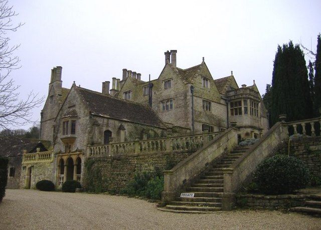 St Catharine's Court